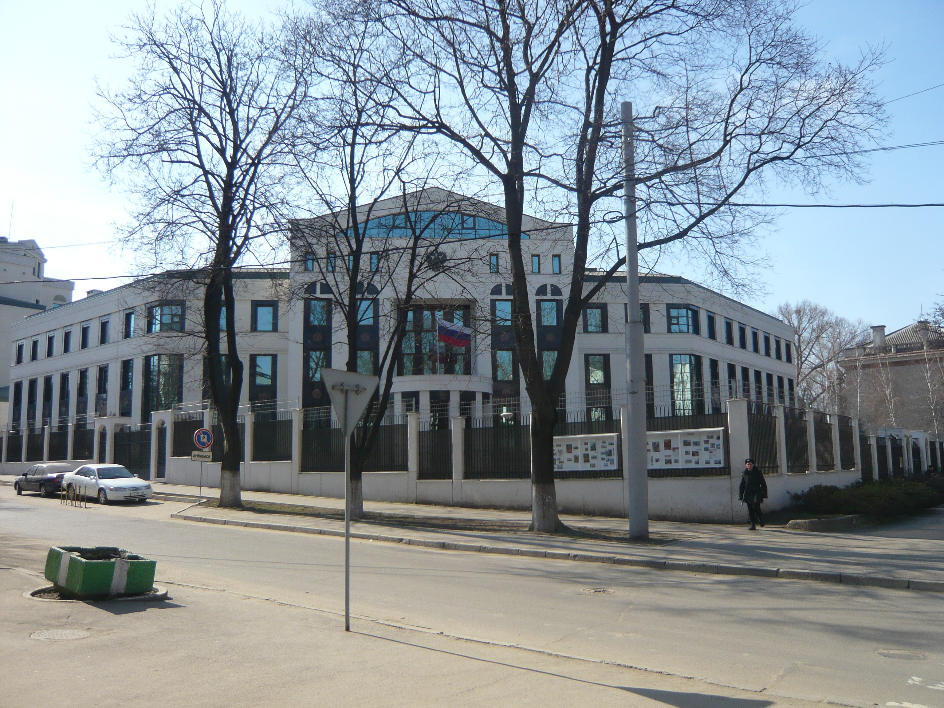 Embassy of Russia, Kishinev